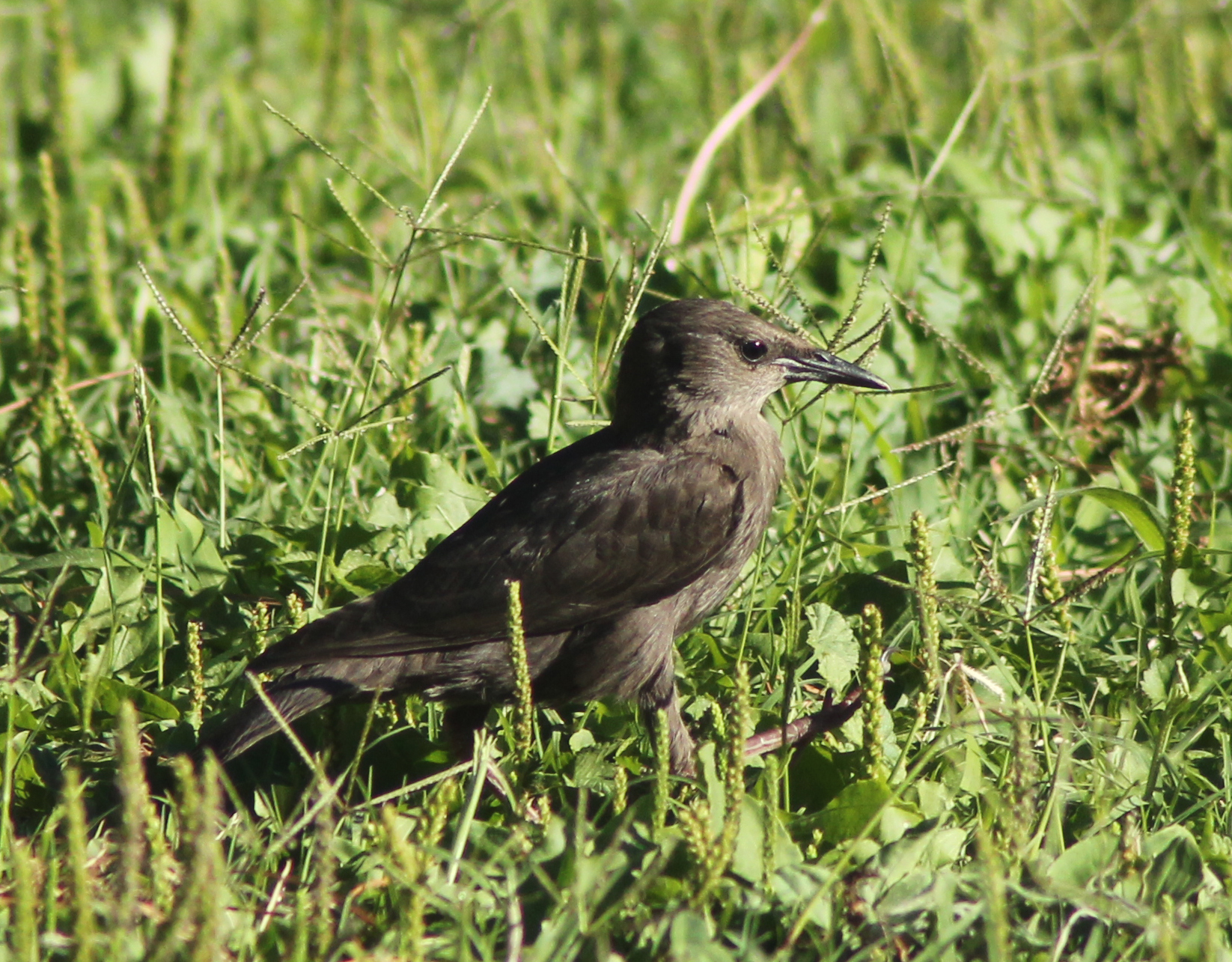 A Spotless Starling (Sturnus unicolor) in Madrid (Spain).